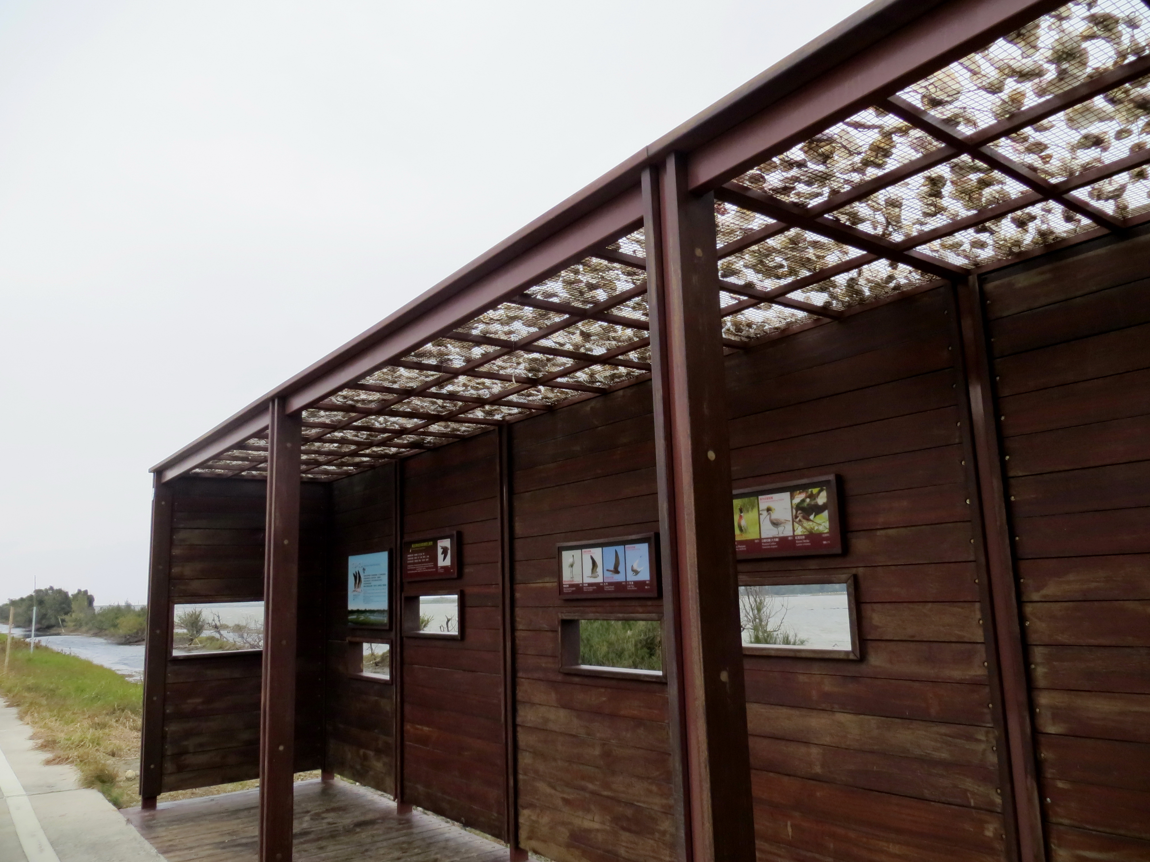 A bird hide for bird watching at the Aogu Wetland, Chiayi, Taiwan.